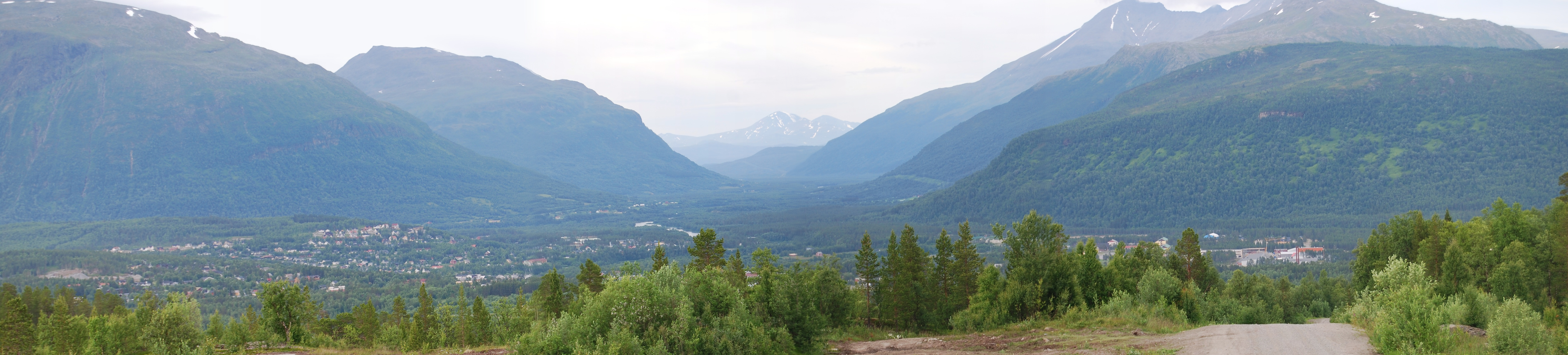 Setermoen town, Bardu municipitaly, Norway. Panorama view from military area